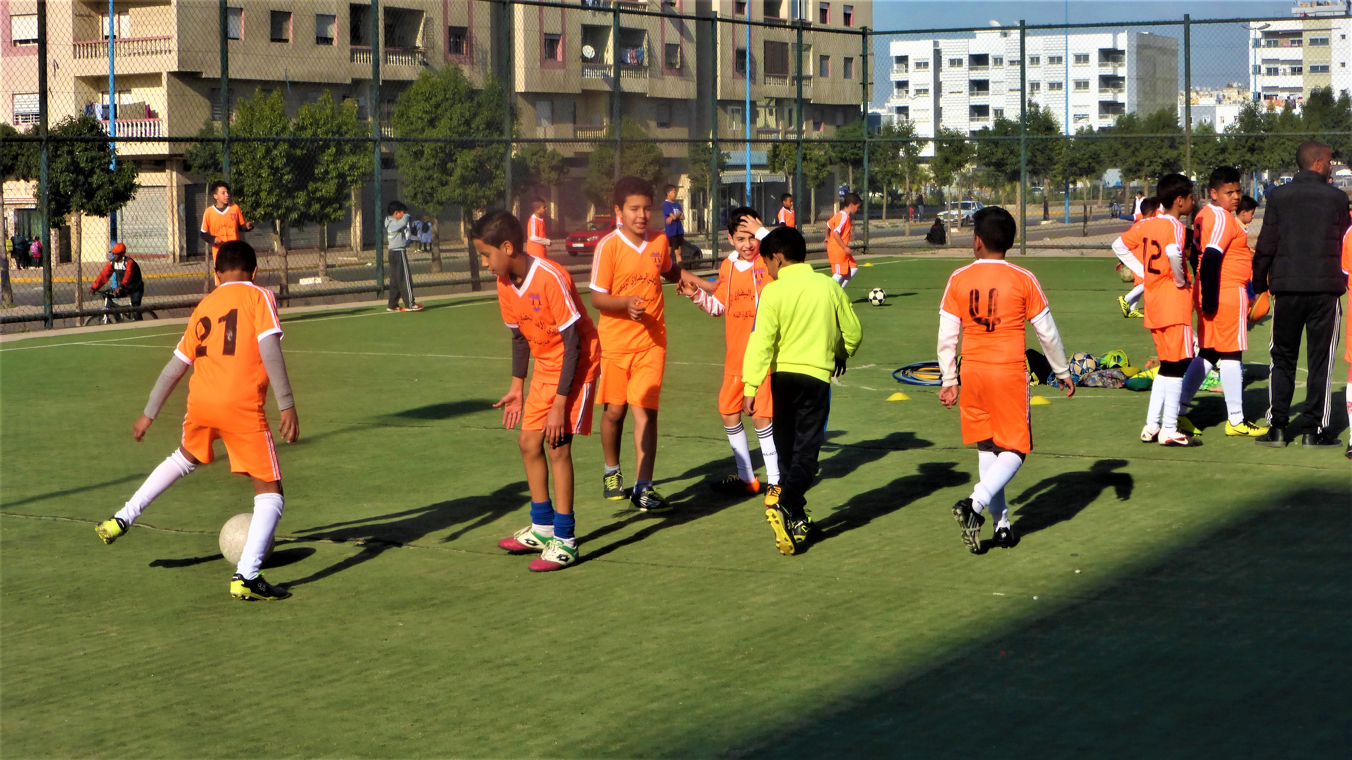 Football is the number one game in the world. See the Moroccan children playing? They're so happy! This is an image with the theme "Play" from: Morocco